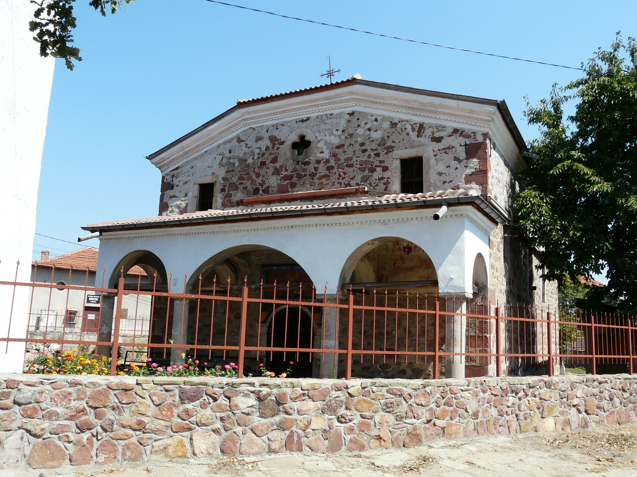 Saint Nicholas of Myra church, Negovan, Bulgaria